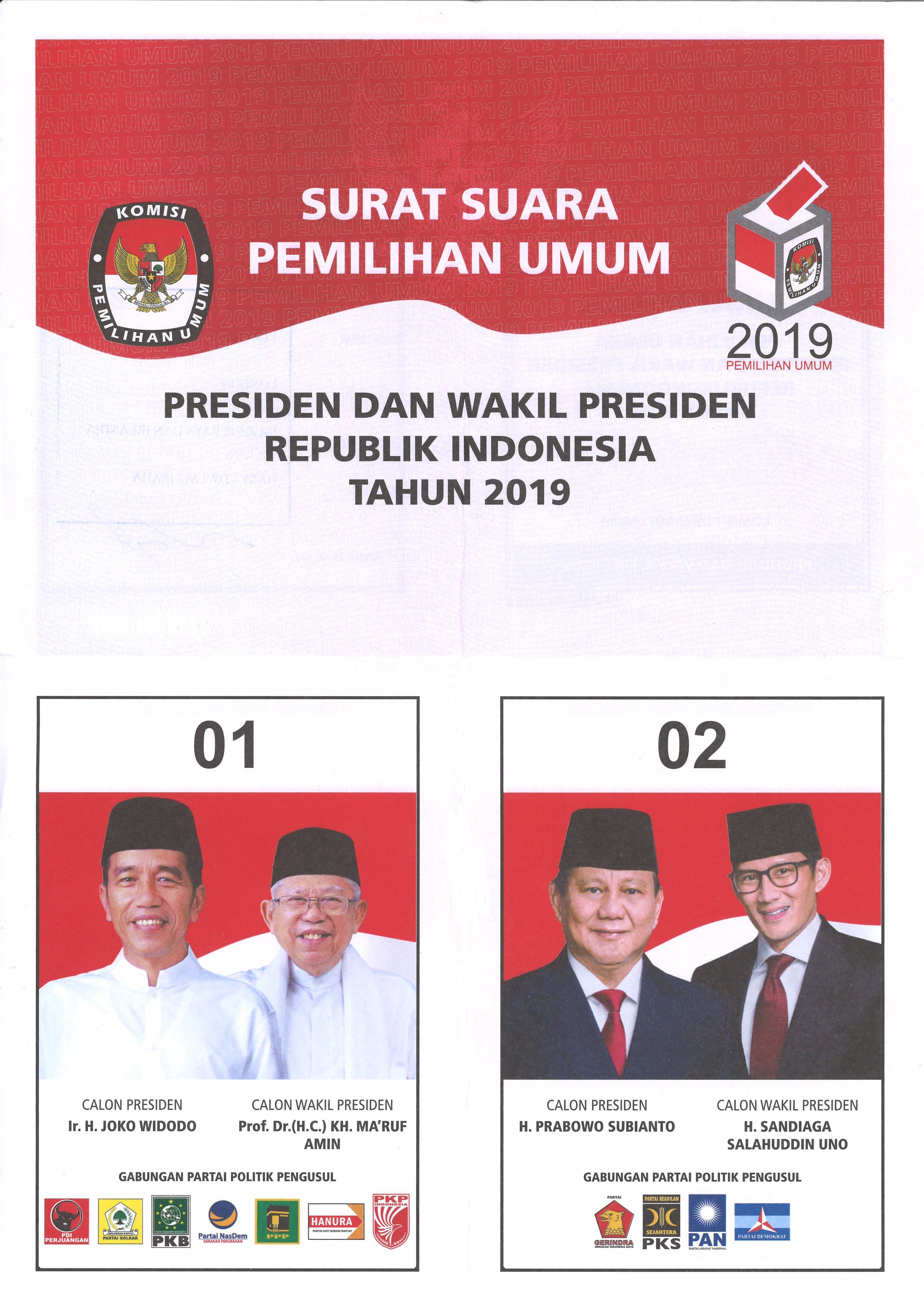 A sample ballot paper for the 2019 Indonesian presidential election.